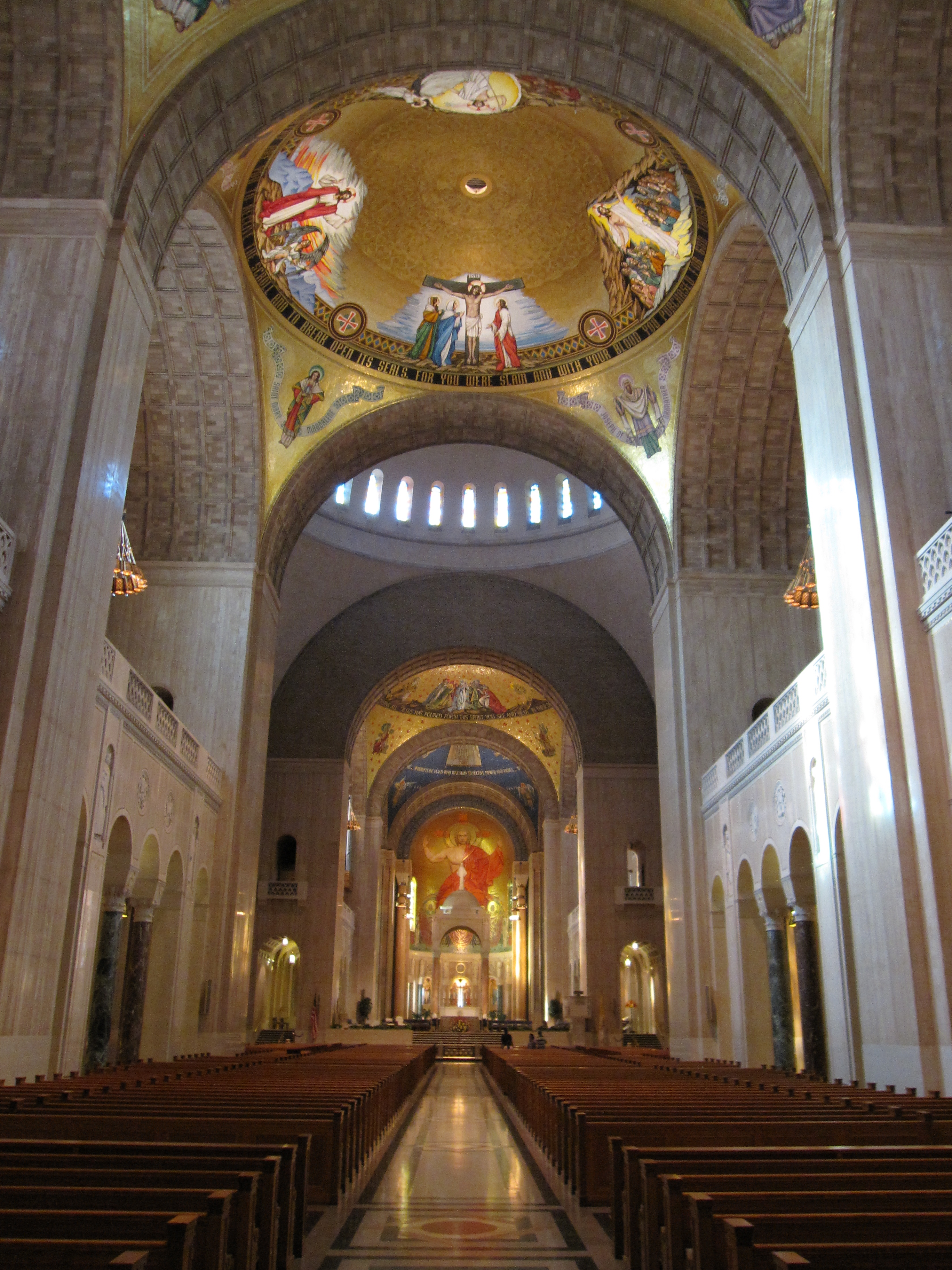 Interior of the Basilica of the National Shrine of the Immaculate Conception in Washington, D.C.